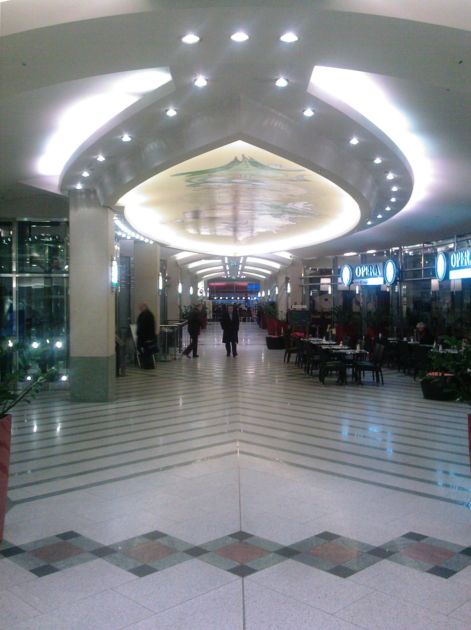 Opern Passagen, Cologne, Germany